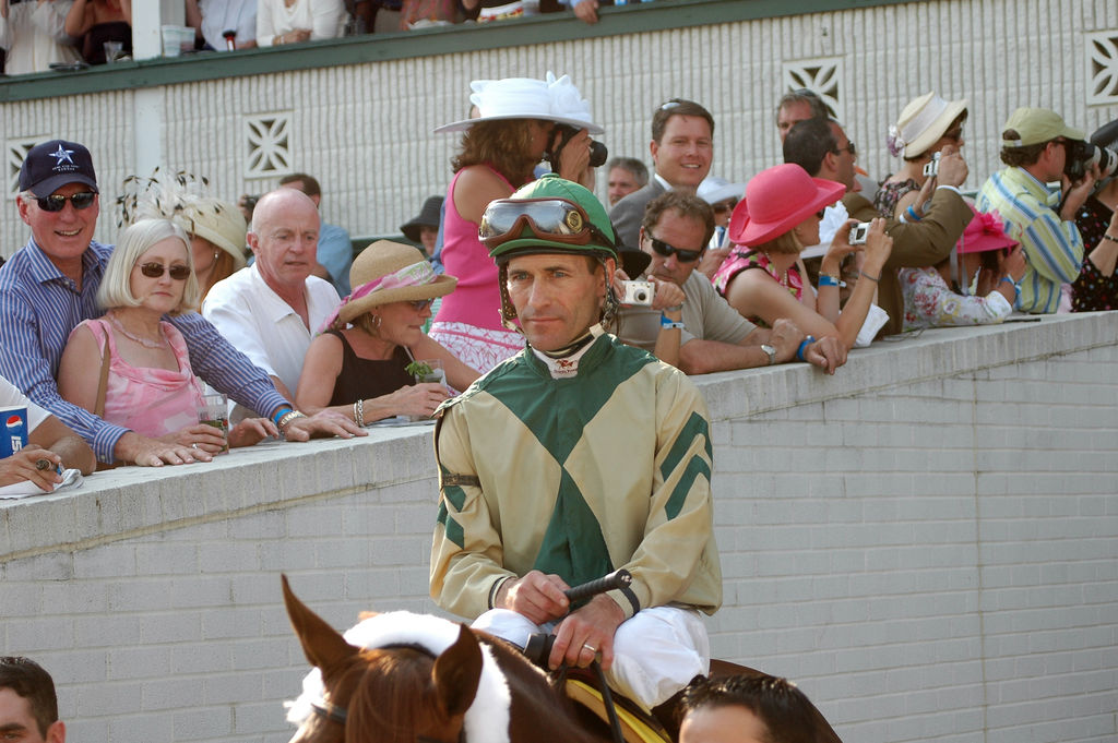 Gary Stevens riding out onto the track at the 2005 Kentucky Derby race on Noble Causeway (trained by Nick Zito) at 12-1. He would lose to Mike Smith aboard Giacamo (50-1)